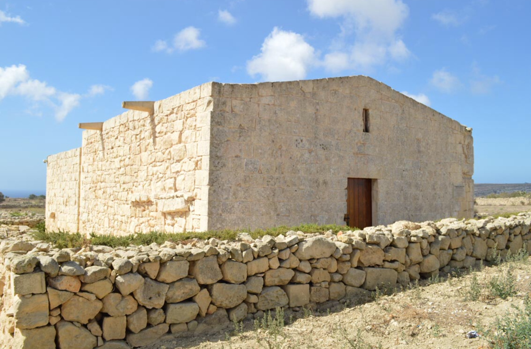 The Santa Cecilia Chapel in the limits of Għajnsielem, Gozo, Malta